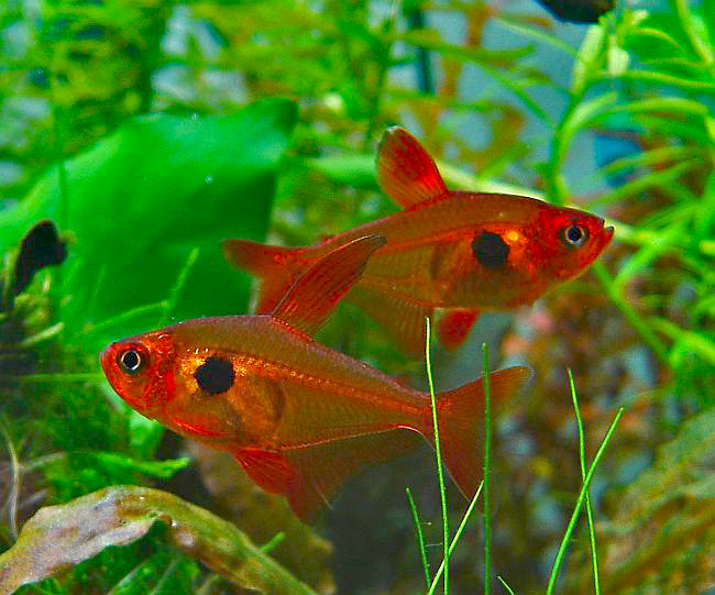 Red Phantom Tetra, Hyphessobrycon sweglesi syn. Megalamphodus sweglesi male (foreground) and female (background). Category:Characiformes images